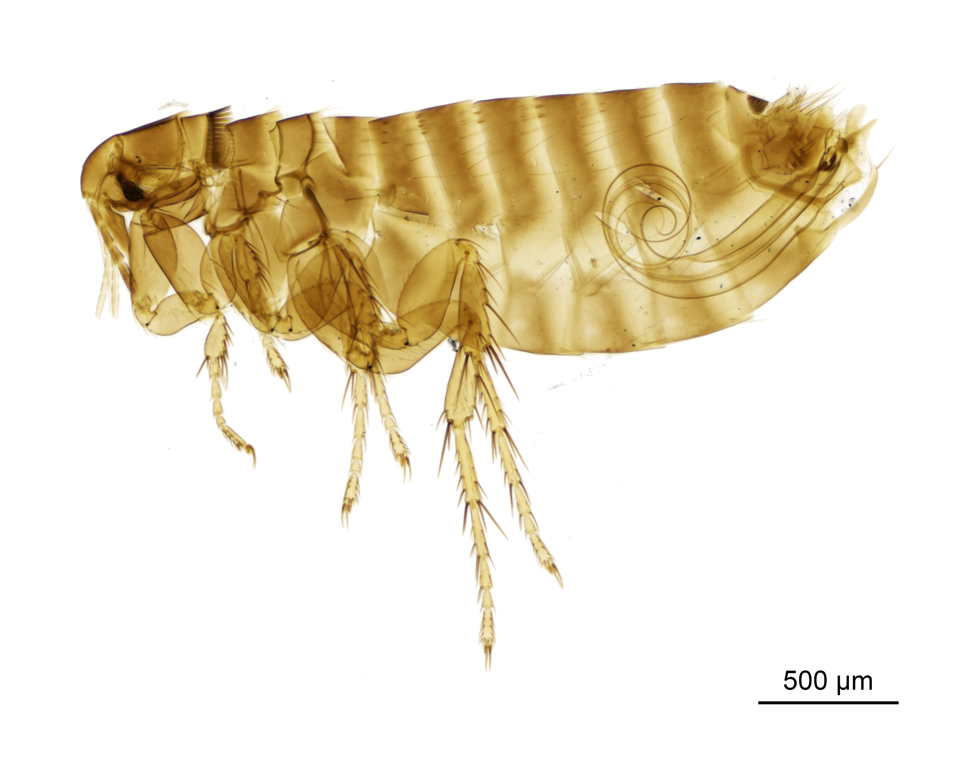 A slide image of the house sparrow/starling nest flea - Ceratophyllus Ceratophyllus fringillae (Walker, 1856). A non-type male.